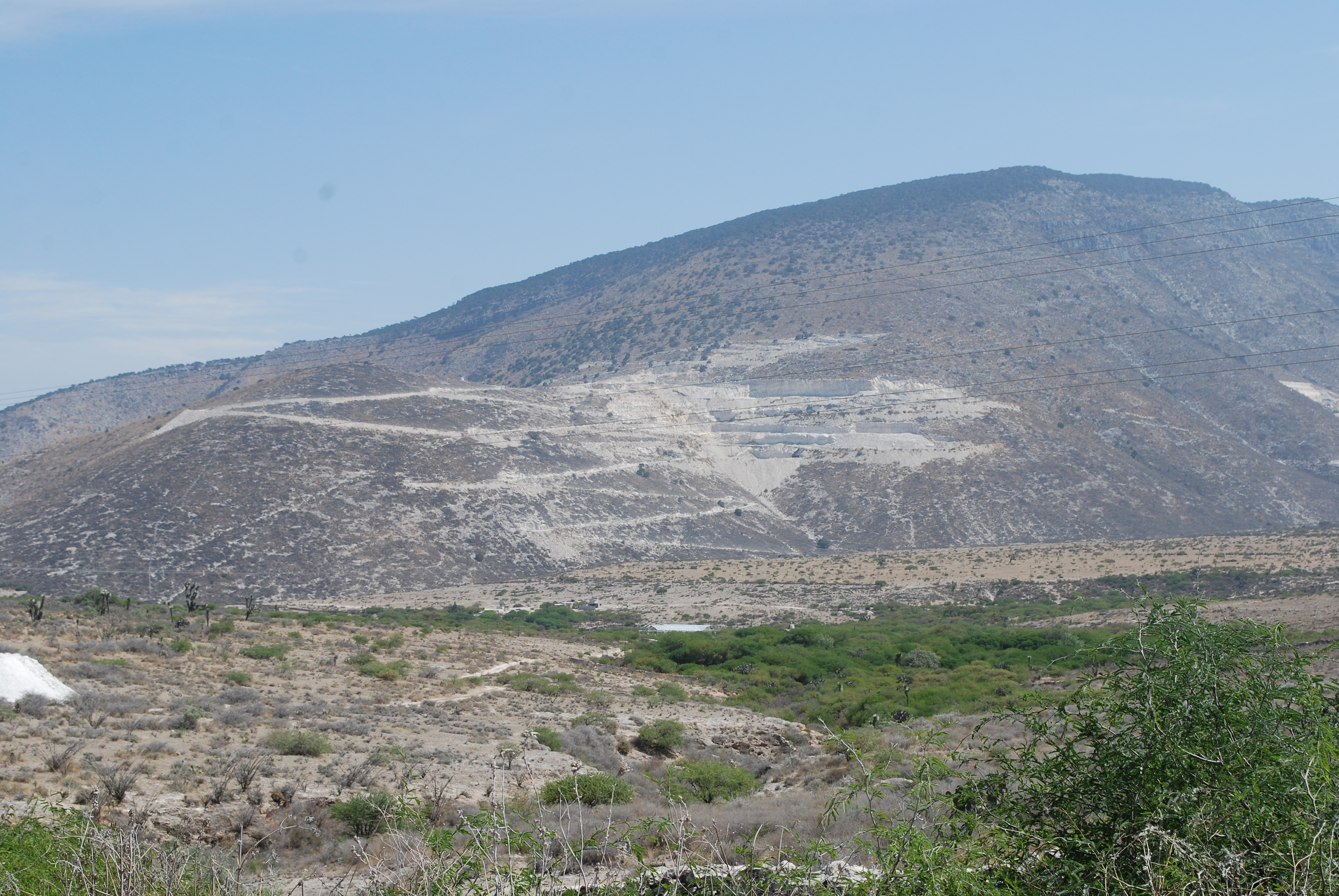 Marble mining in Vizarron, Cadereyta de Montes, Querétaro, Mexico